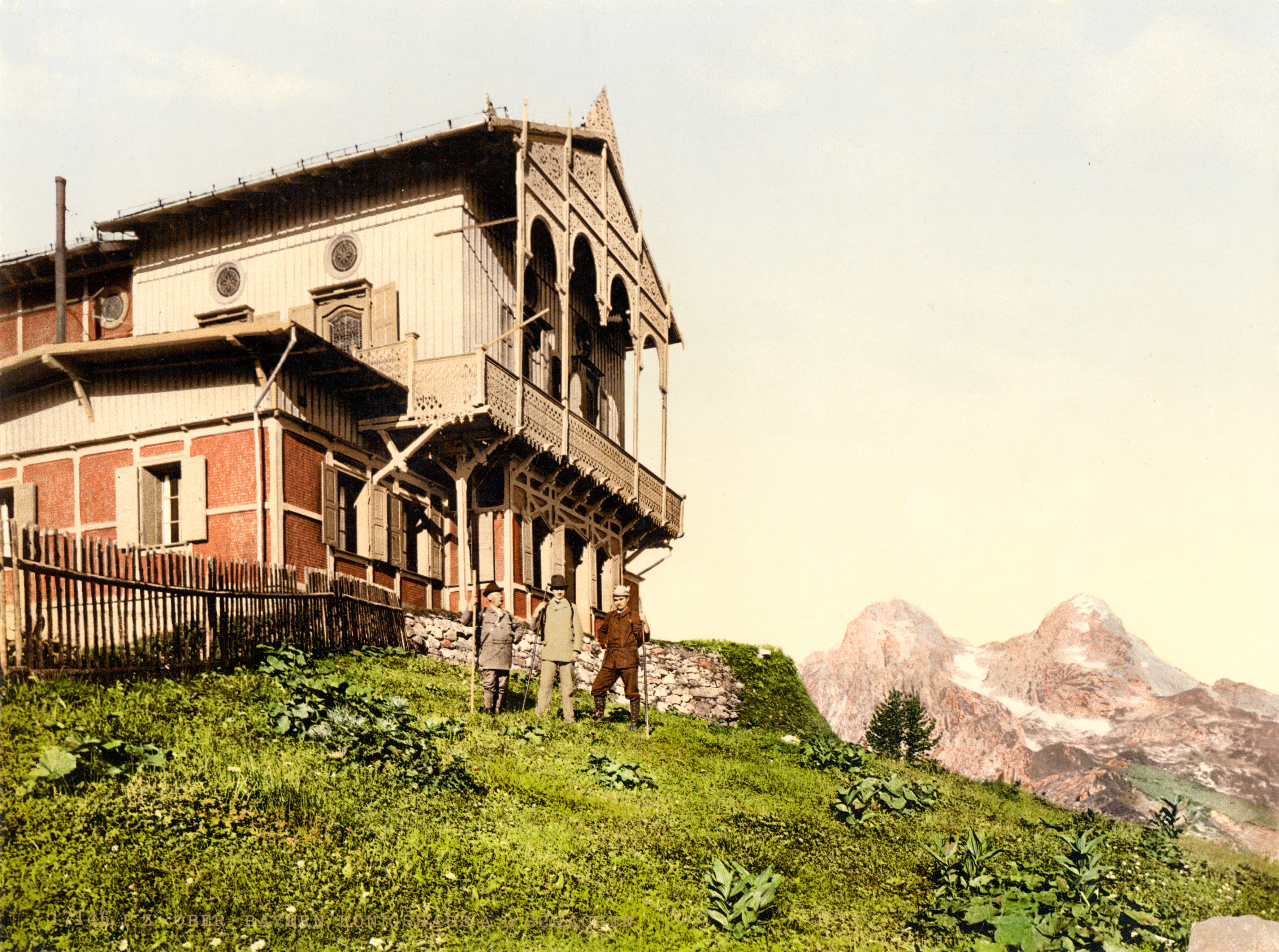 Photochrom print by Photoglob Zürich, between 1890 and 1900. From the Photochrom Prints Collection at the Library of Congress More photochroms from Germany | More photochrom prints [PD] This picture is in the public domain